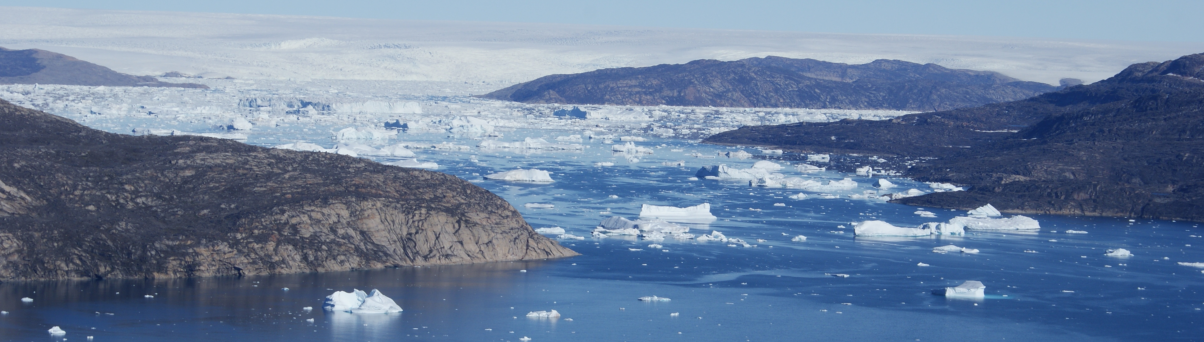 Aerial view of Ikerasaa strait (center) between Kullorsuaq Island (left) and Saqqarlersuaq Island (right), Nunatakassak nunataq (behind), and Sermersuaq, the Greenland icesheet. Melville Bay, Upernavik Archipelago, Greenland. Photographed from the Air Greenland Bell 212 during the Kullorsuaq-Nuussuaq flight.